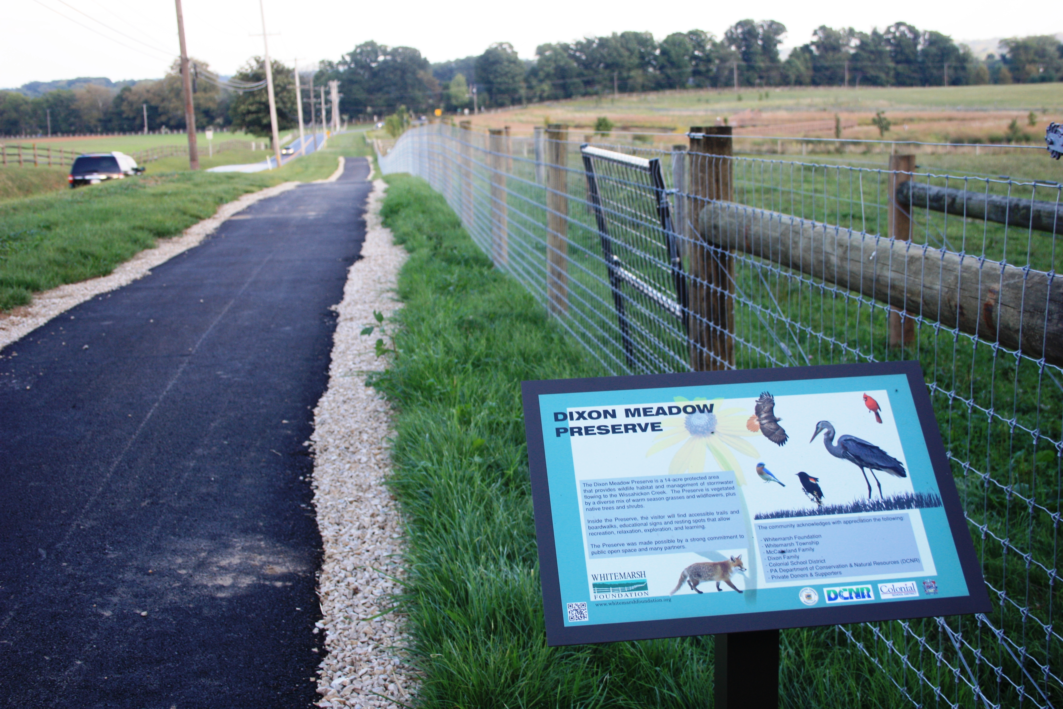 Newly finished and spectacular Dixon Meadow Preserve along Flourtown Road in Whitemarsh. Developed and protected by the Whitemarsh Foundation.